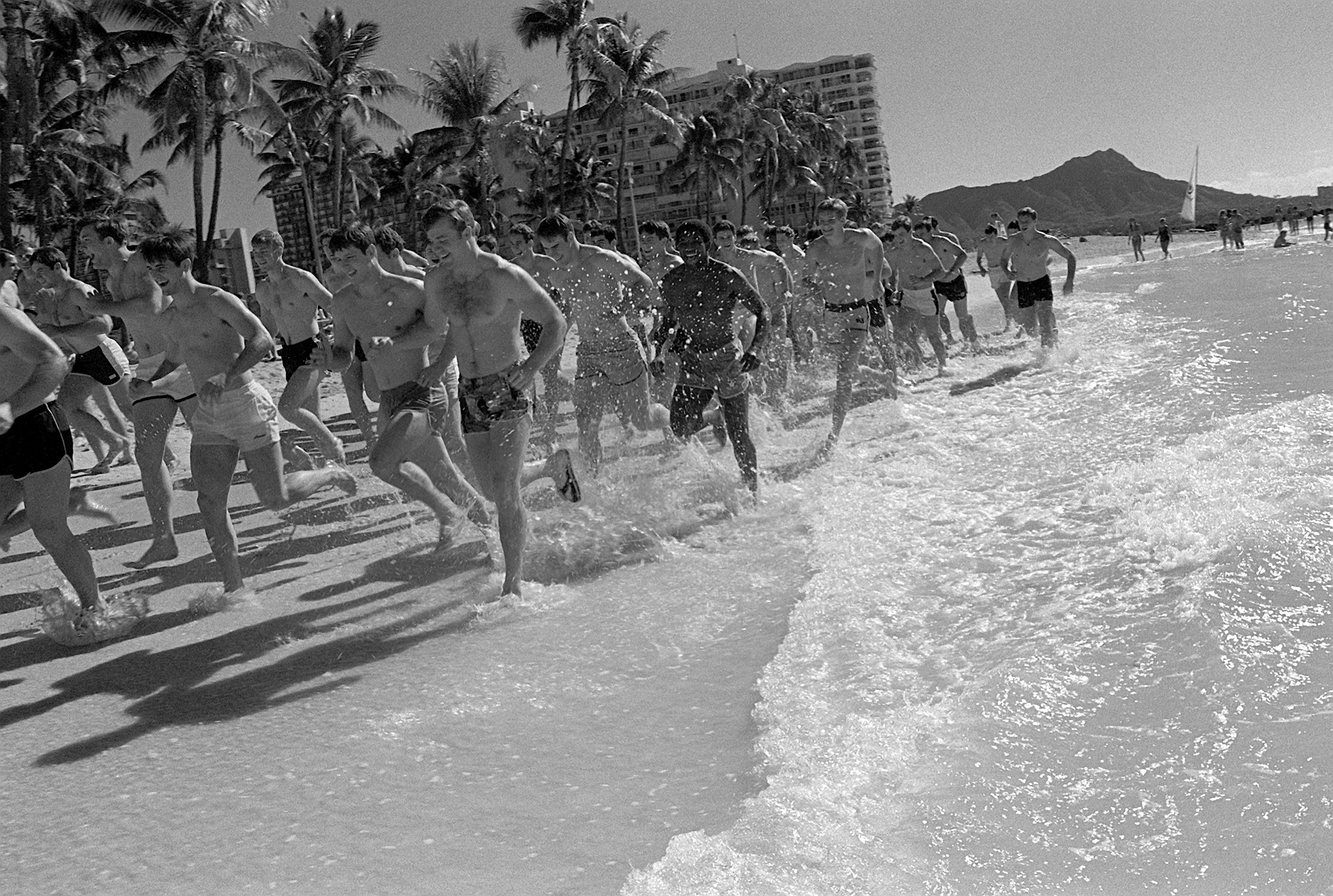 Members of the Air Force Academy football team jog on Waikiki Beach before their game with the team from the University of Hawaii.